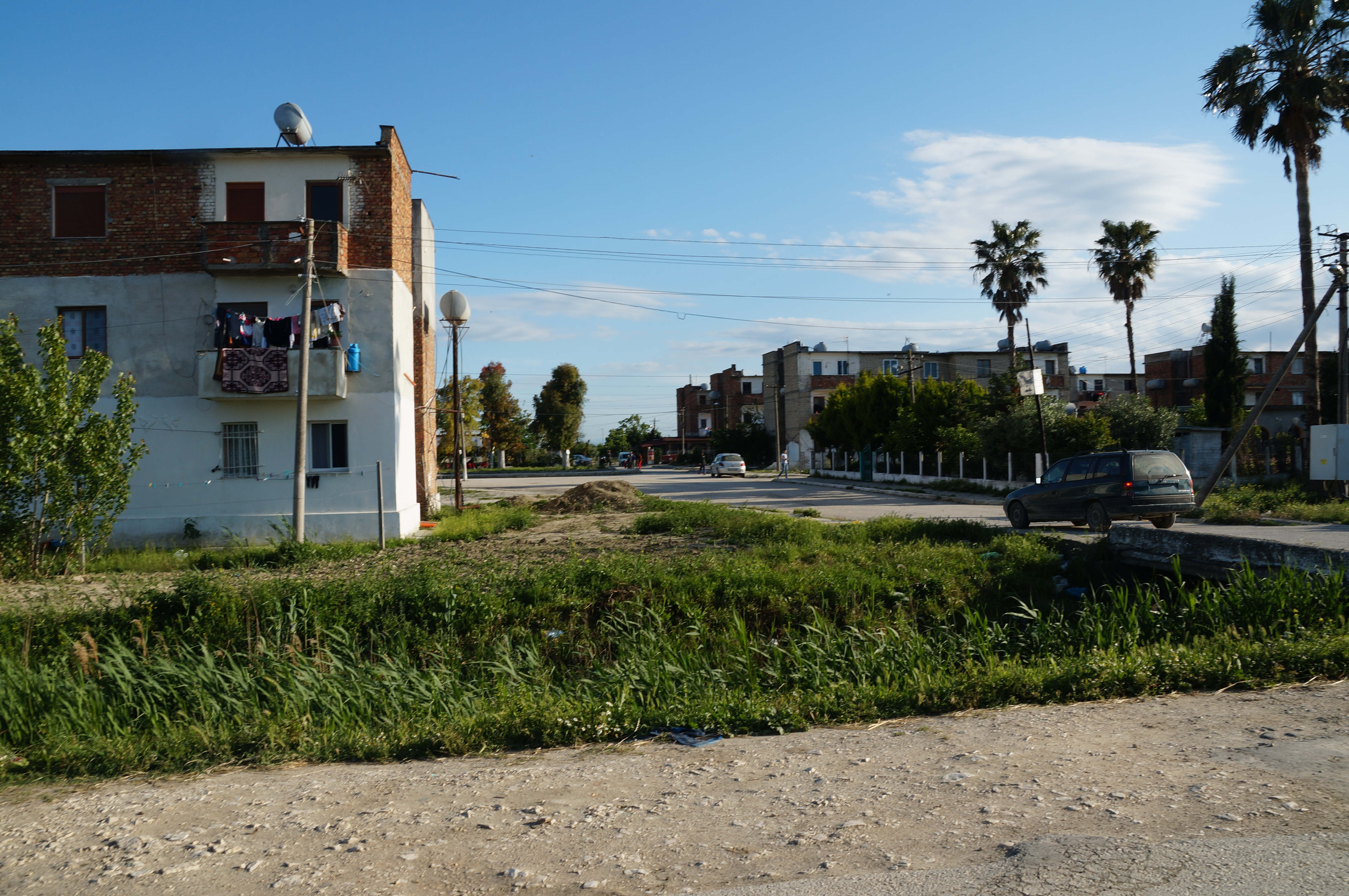 The village of Karavasta in Divjaka district.